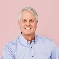 Excecutive Portraiture retouched selects